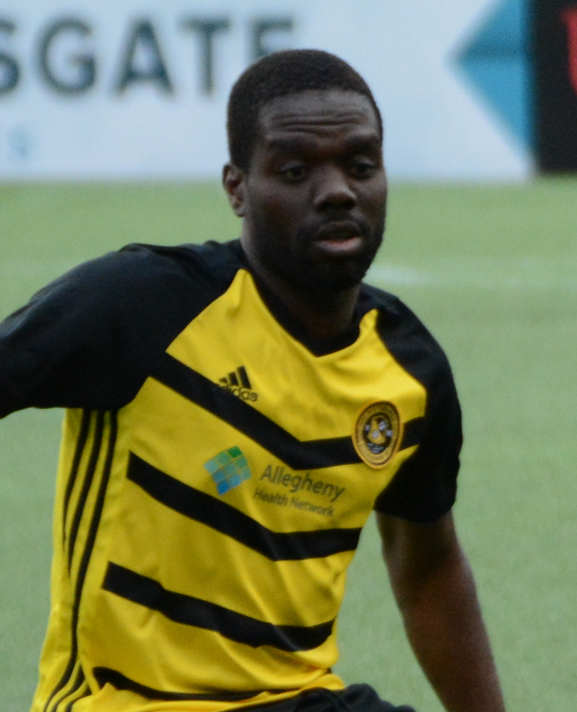 Taken during a USL regular season match between FC Cincinnati and Pittsburgh Riverhounds at Nippert Stadium in Cincinnati, USA on April 21, 2018.